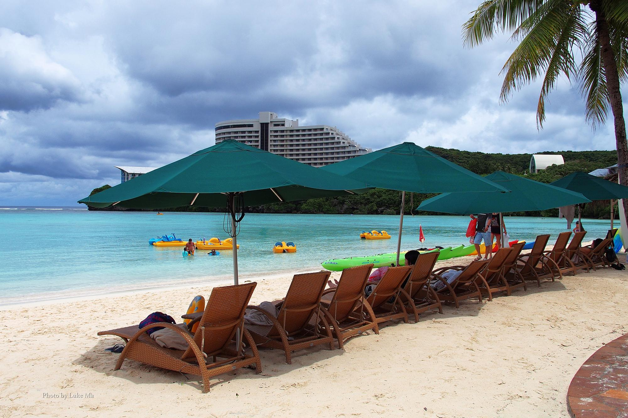 威斯汀 海灘 杜夢灣 關島 by Olympus OM-D E-M5 Panasonic Lumix G X VARIO 12-35mm F2.8